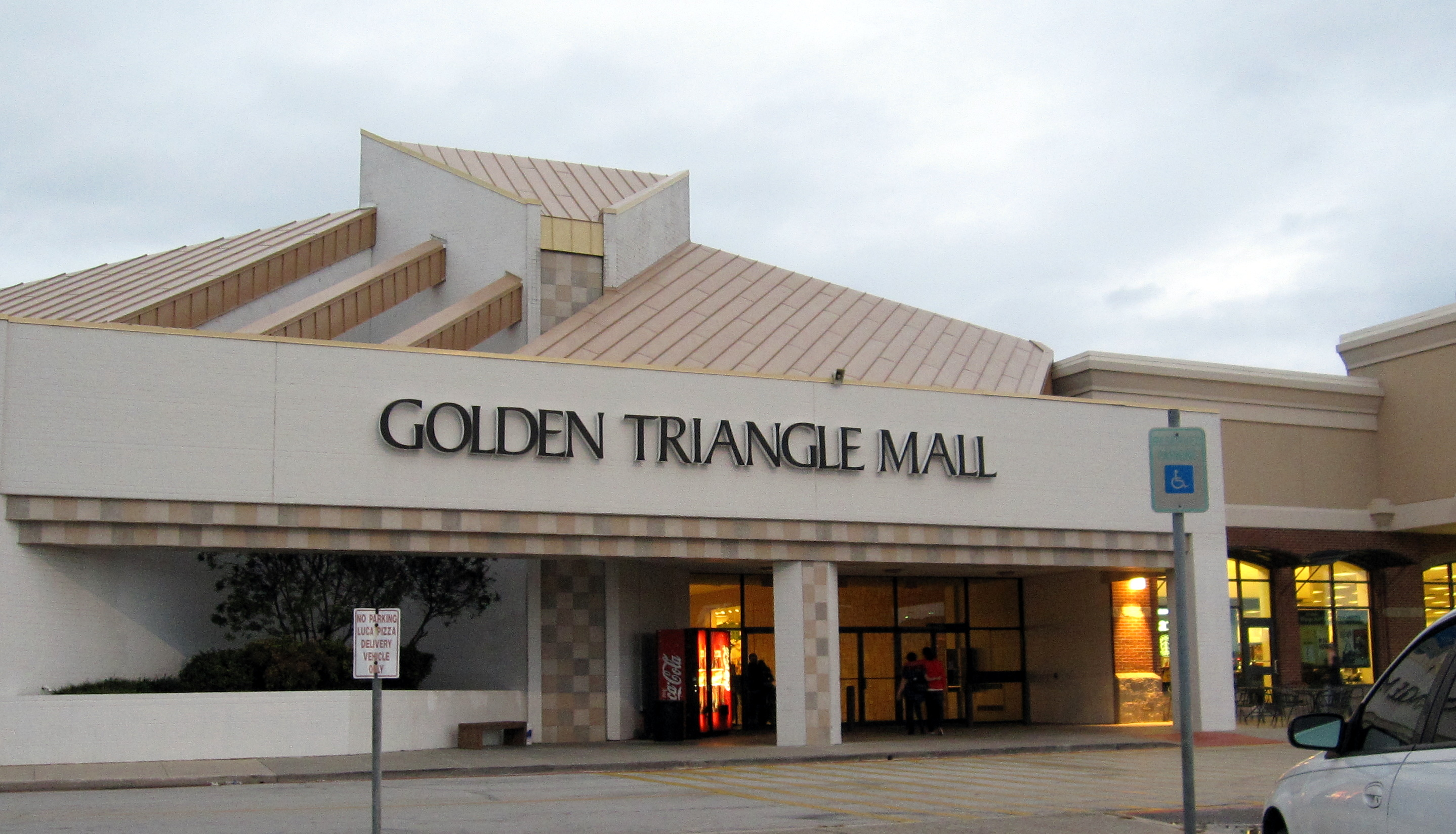 Golden Triangle Mall in Denton, Texas